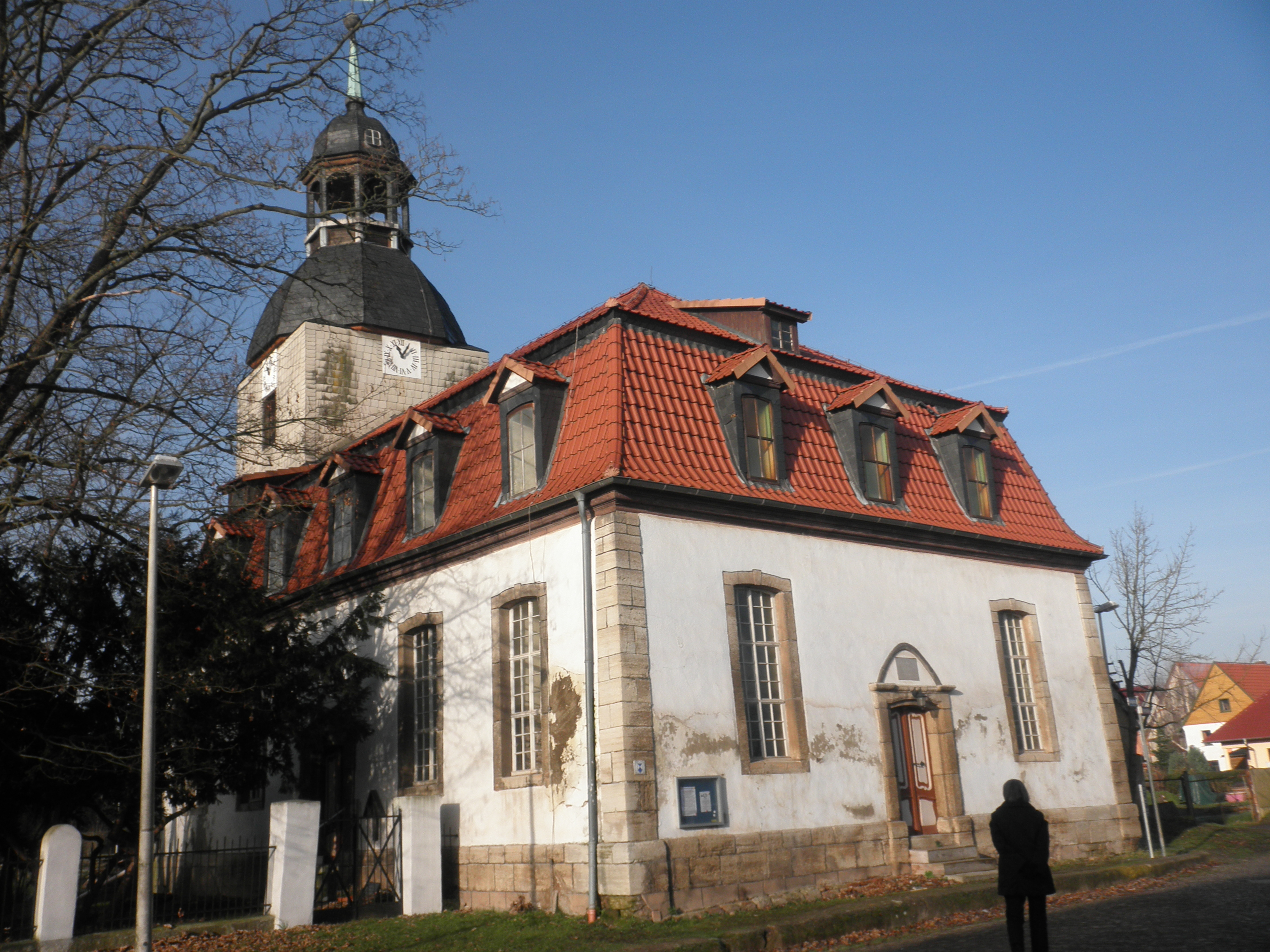 Church in Sundhausen (Nordhausen) in Thuringia